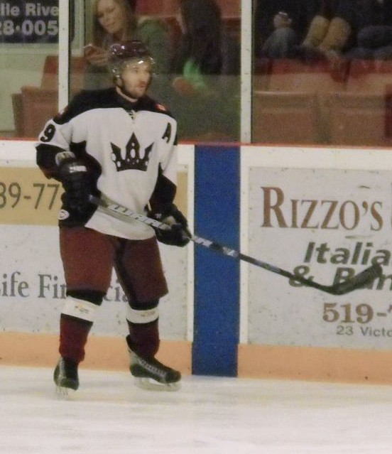 These images of GLJHL action are taken by Devan Mighton.